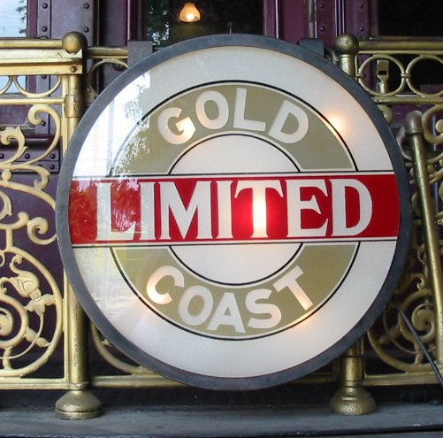 The drumhead from the Gold Coast Limited passenger train operated by the Chicago, North Shore and Milwaukee Railroad beginning in 1917. The drumhead is on display at the Illinois Railway Museum.